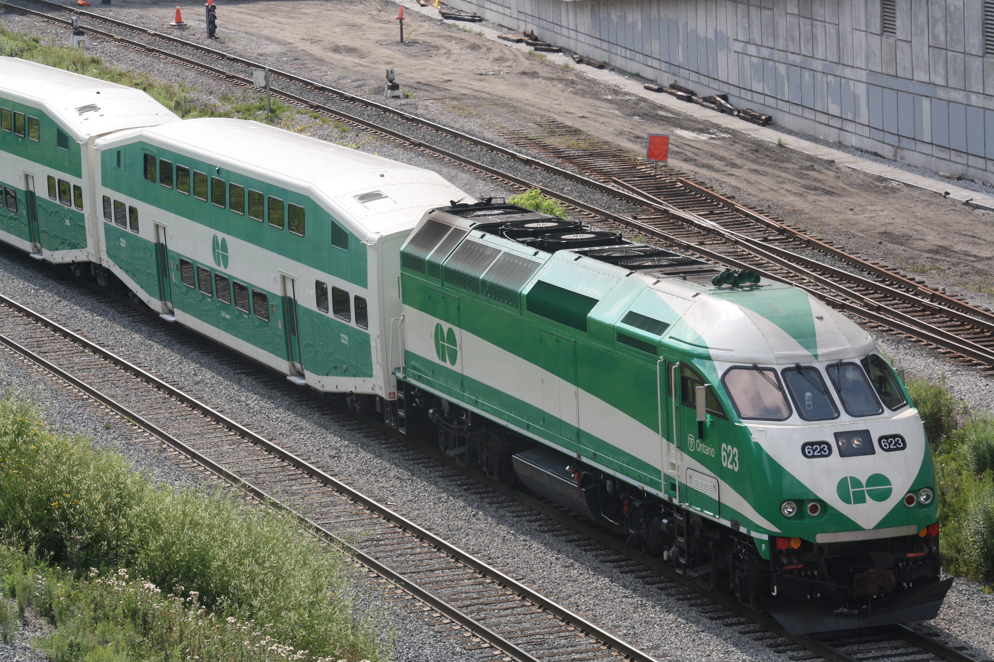 GO Transit locomotive 623 and train awaiting afternoon rush hour duty outside Union Station.